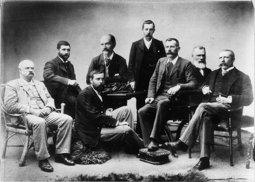 Photograph of members of the Horn Scientific Expedition, taken in 1894. Members of the expedition photographed include, from left to right: Ralph Tate, F. W. Belt, J. A. Watt (seated), W. A. Horn, W. Baldwin Spencer, Charles Winnecke, G.A. Keartland, E.C. Stirling